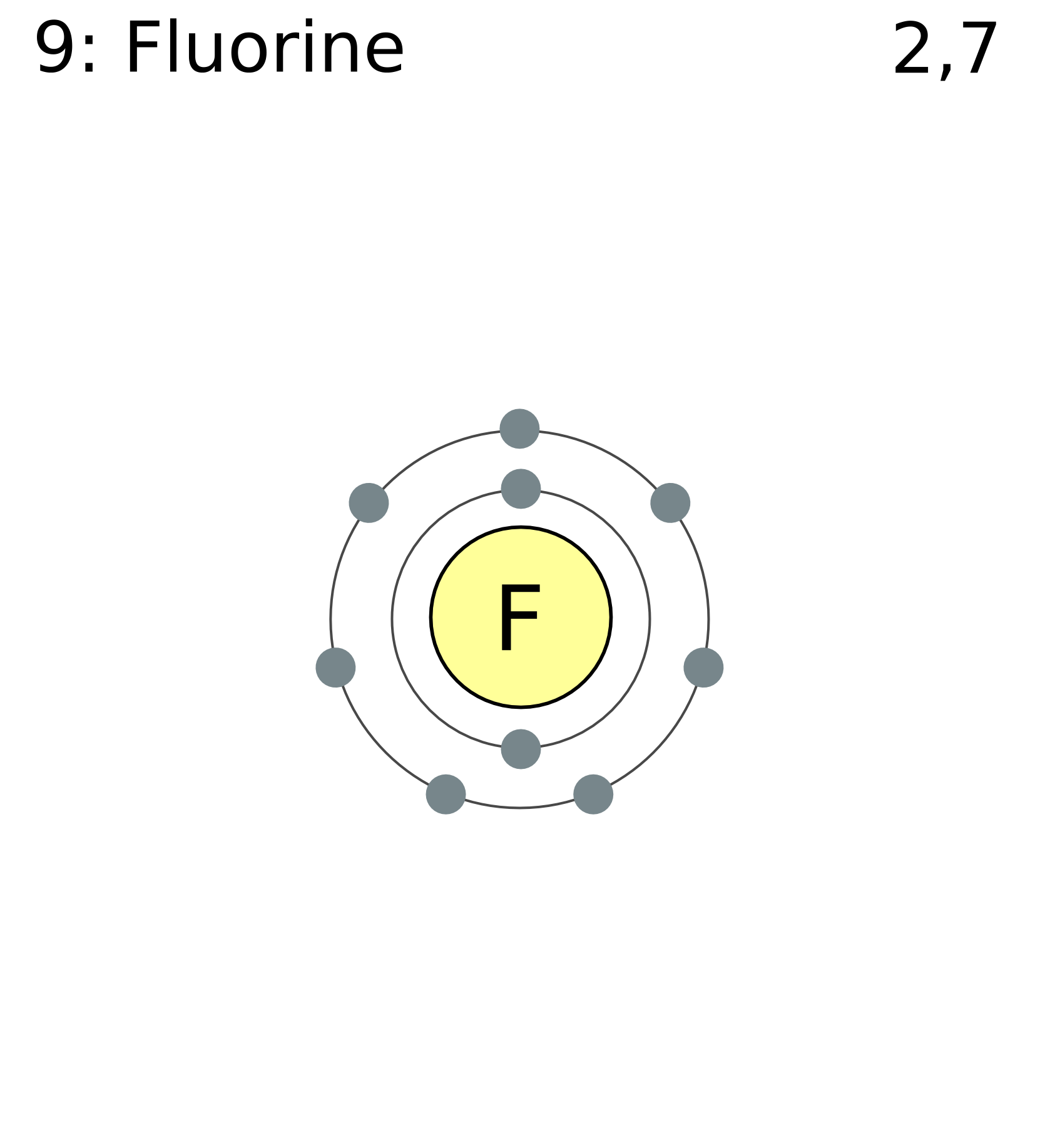 Electron shell diagram for Fluorine, the 9th element in the periodic table of elements.